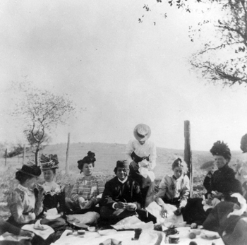 Swami Vivekananda in California, January, 1900. Swami Vivekananda in centre in this photo; on his right, Mrs. Bruce; behind him, Carrie Wyckoff; on his left, Alice Hansbrough. The other people are unknown.